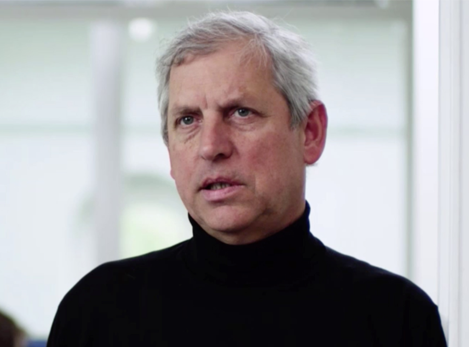 Portrait of Martin Stephan Fischer Screenshot from 'X-Ray Run - Das Geheimnis des Laufens' Provided by Daniel Münter